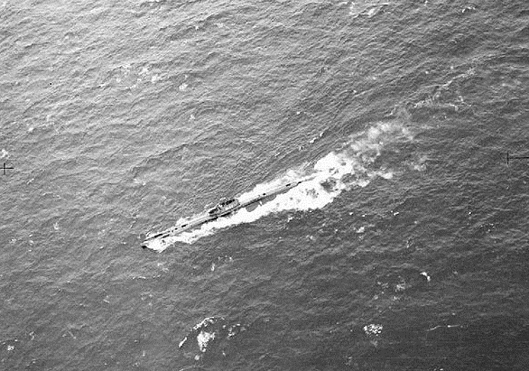 Rainbow-class submarine HMS Regent (N41) under way